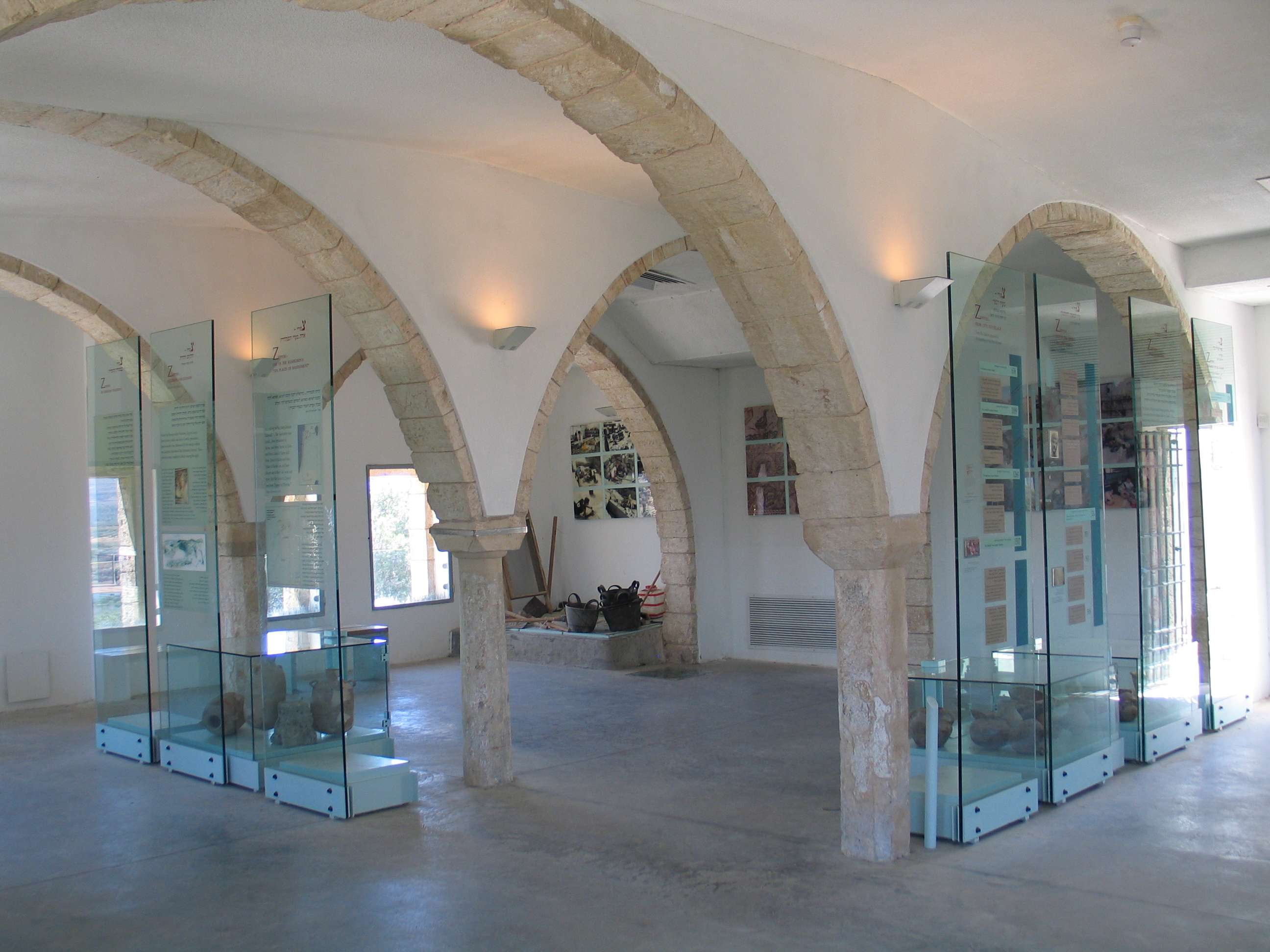 The crusader tower in Tzippori national park, Israel.